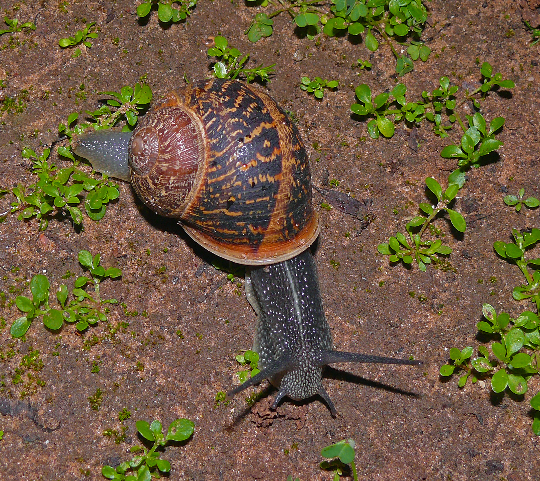 Common Garden Snail (Helix aspersa / Cornu aspersum), Israel